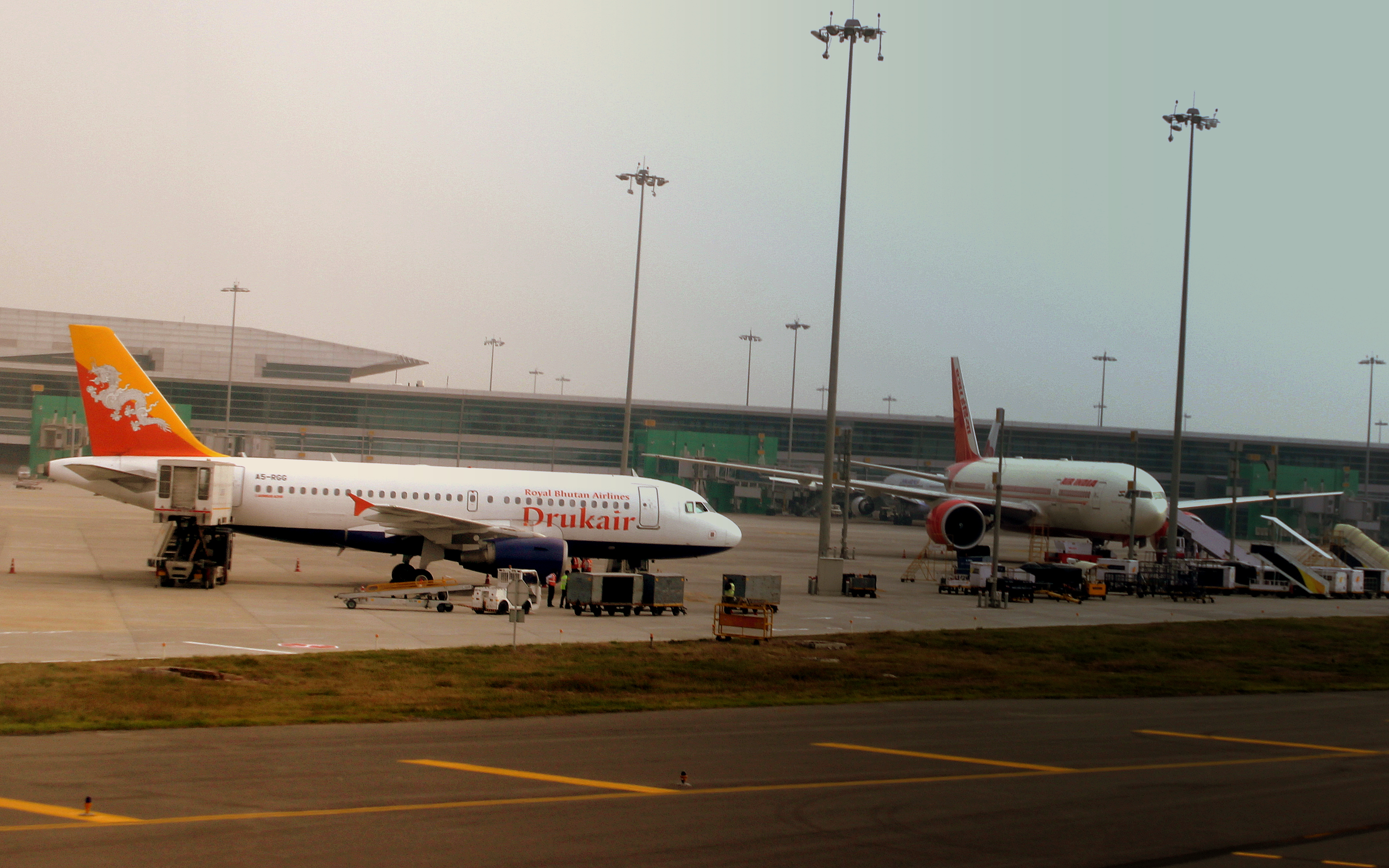 DRUK AIR ROYAL BHUTAN AIRLINES A319 A5-RGG AT INDIRA GANDHI AIRPORT DELHI INDIA FEB 2013